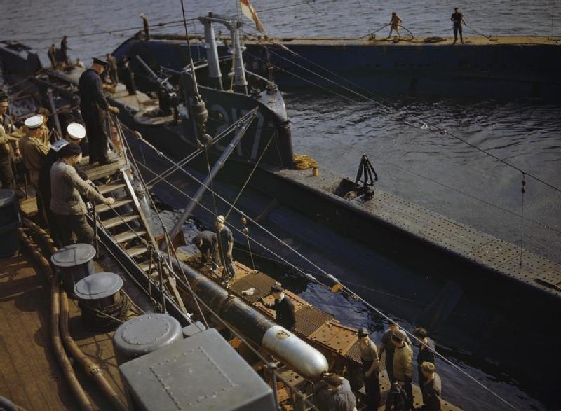 On Board the Submarine Depot Ship HMS Forth, Holy Loch, Scotland, 1942 The depot ship HMS FORTH transferring a practice torpedo to the submarine P311. HMS SIBYL (P217) is seen alongside and another submarine is seen in the background.